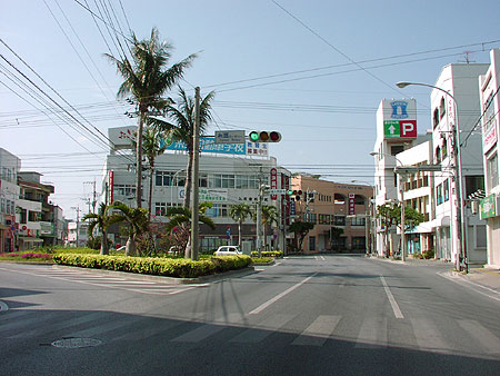 Itoman Rotary